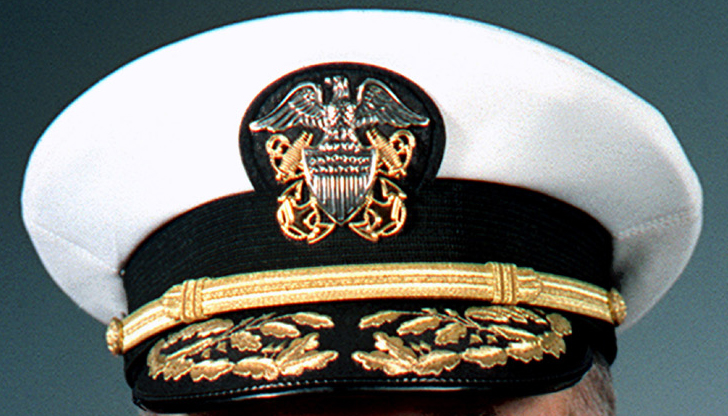 Male naval officers wear the visor hat. The insignia in the center of the hat is an eagle on top of a shield in front of two crossed anchors. This designates the person wearing the hat as an officer. Like the service hat, the visor on a junior officer's hat is plain black and senior officers have gold oak leaves on the visor called "scrambled eggs."[1]